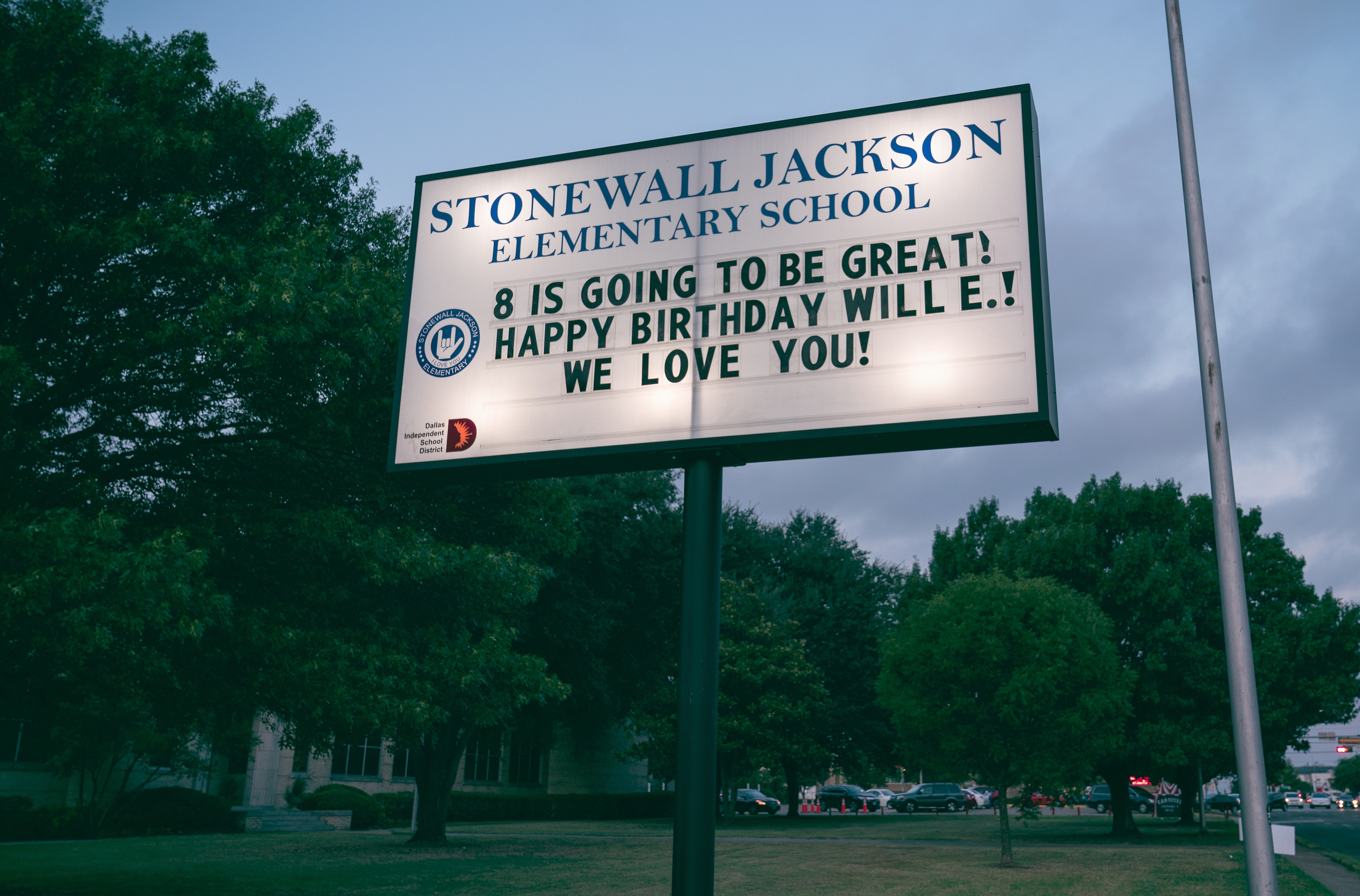 Stonewall Jackson Elementary School, Dallas, Texas.